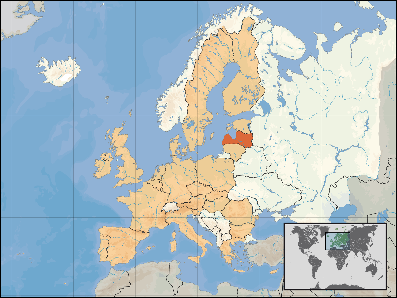 Location of Latvia within Europe and the European Union on the 1st of January 2007.